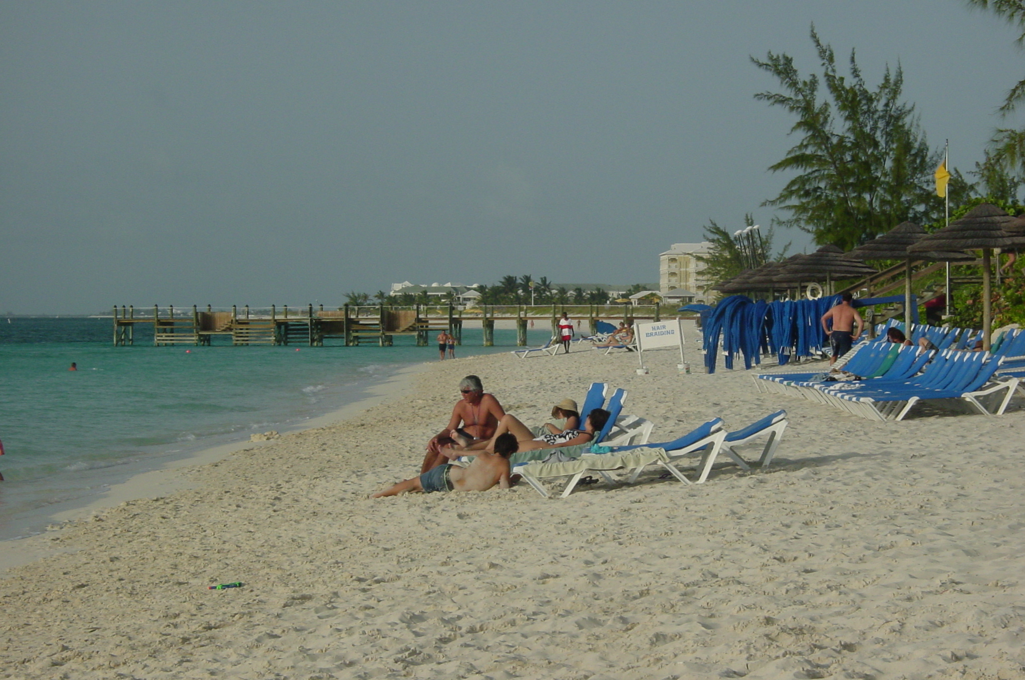 The beach at The Beaches resort on the Turks and Caicos Island.